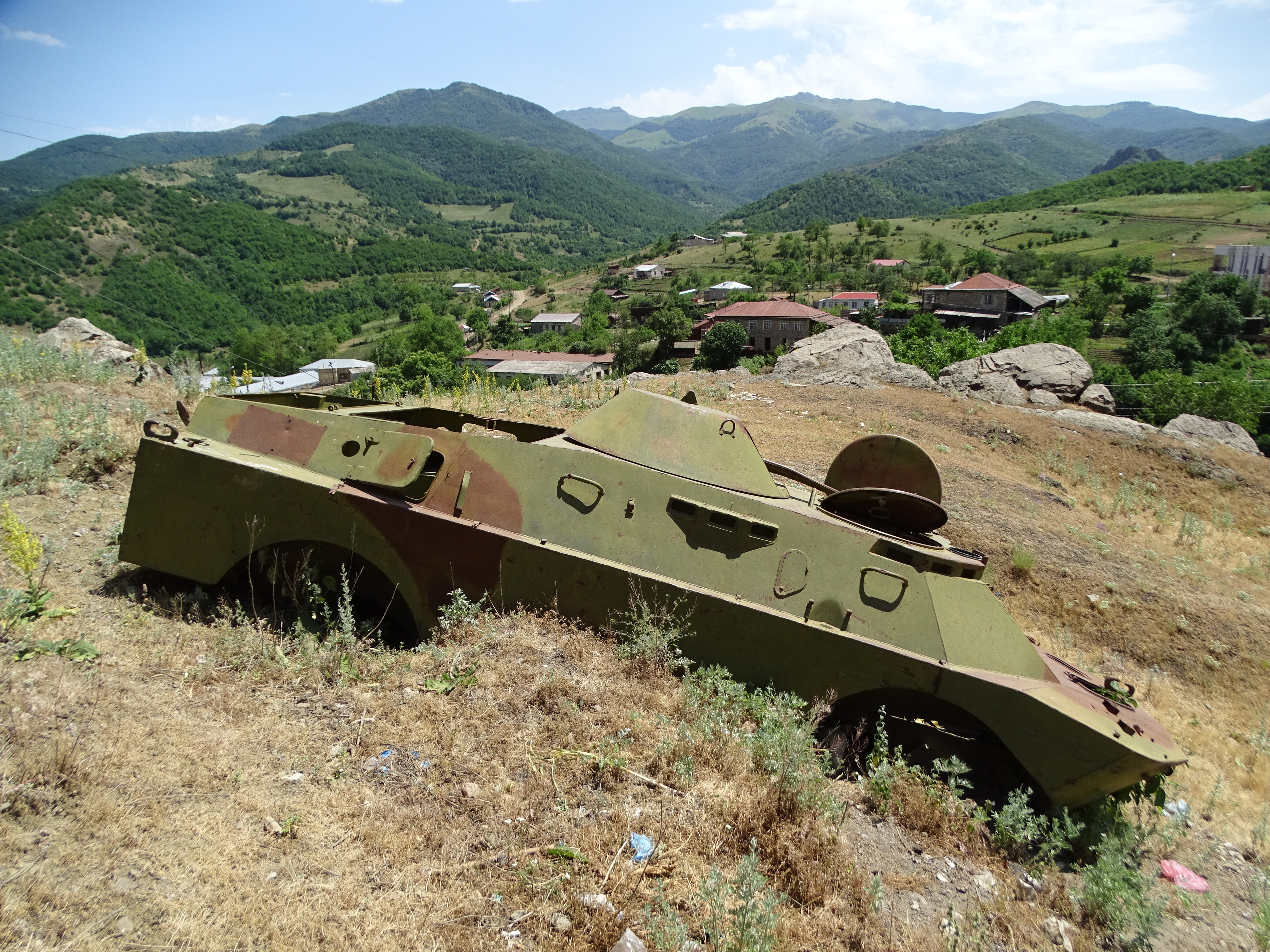 Destroyed Military Vehicle , Karintak, NKR.